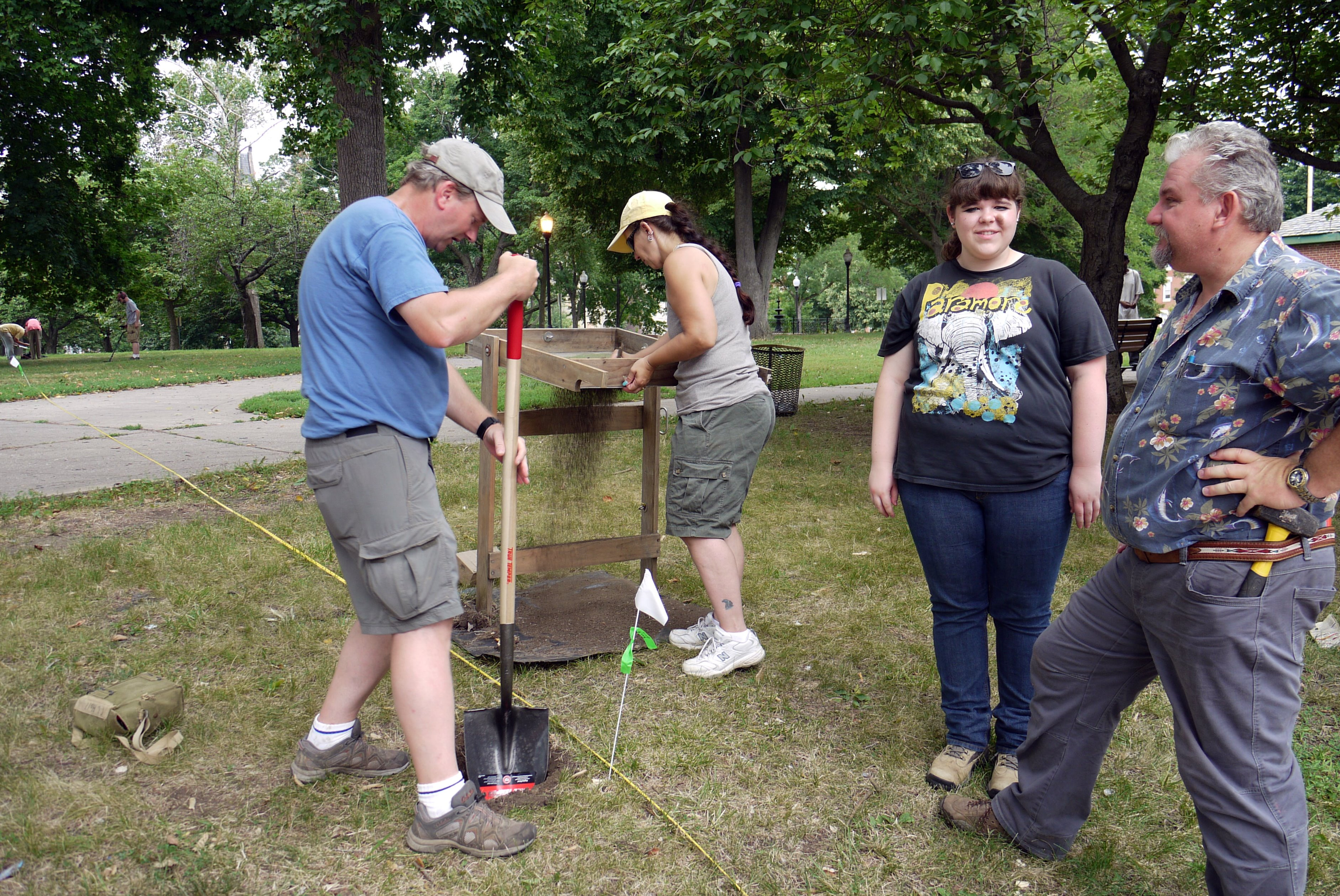 Join us for Civil War Archeology in Lafayette Square on Saturday, July 9 from 11:00 am to 3:00 pm. Connect with [ Baltimore Heritage] and the [ Friends of West Baltimore Squares] on Facebook to follow continued updates on this project.